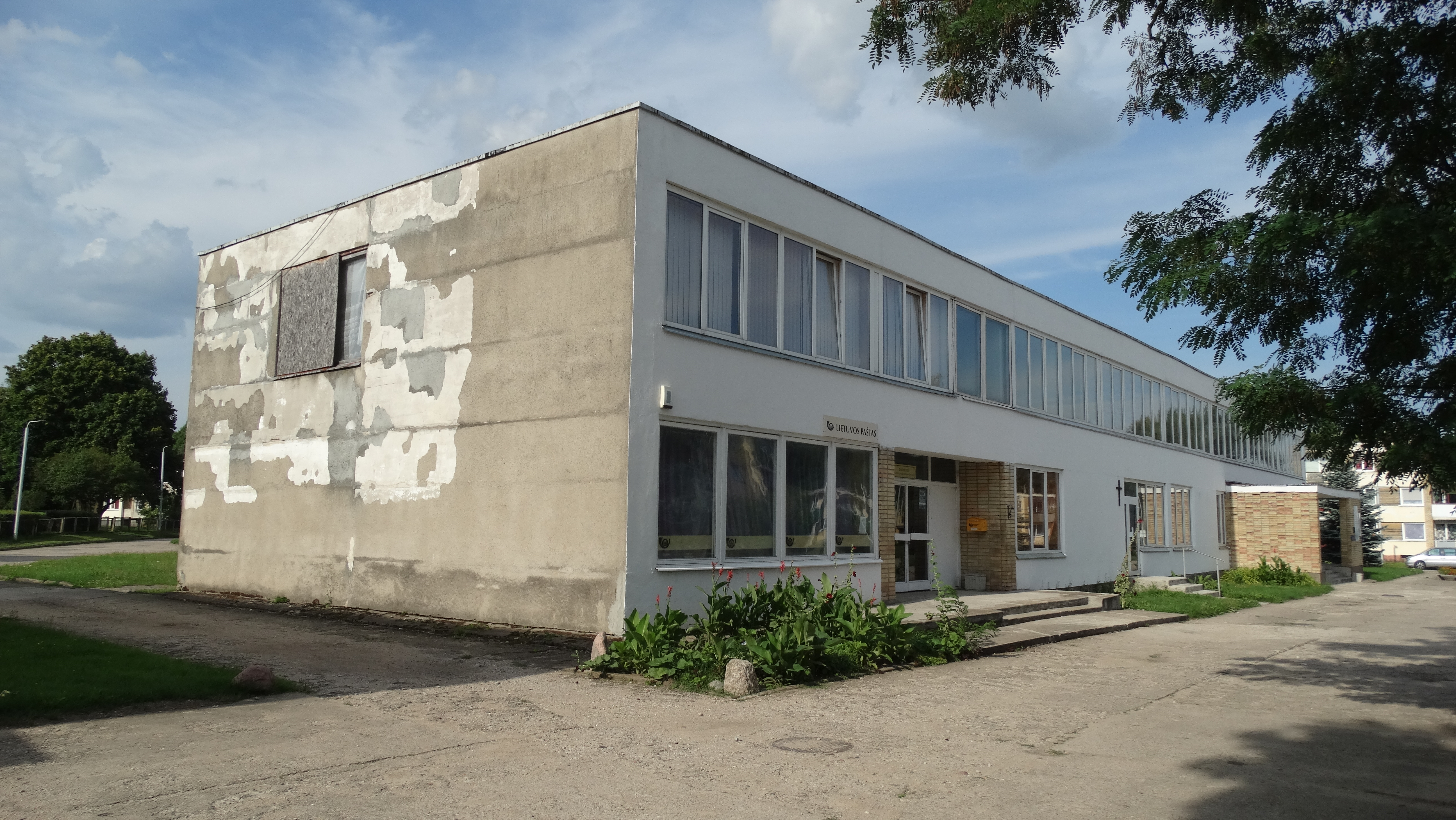 Dainava, Ukmergė District, Lithuania